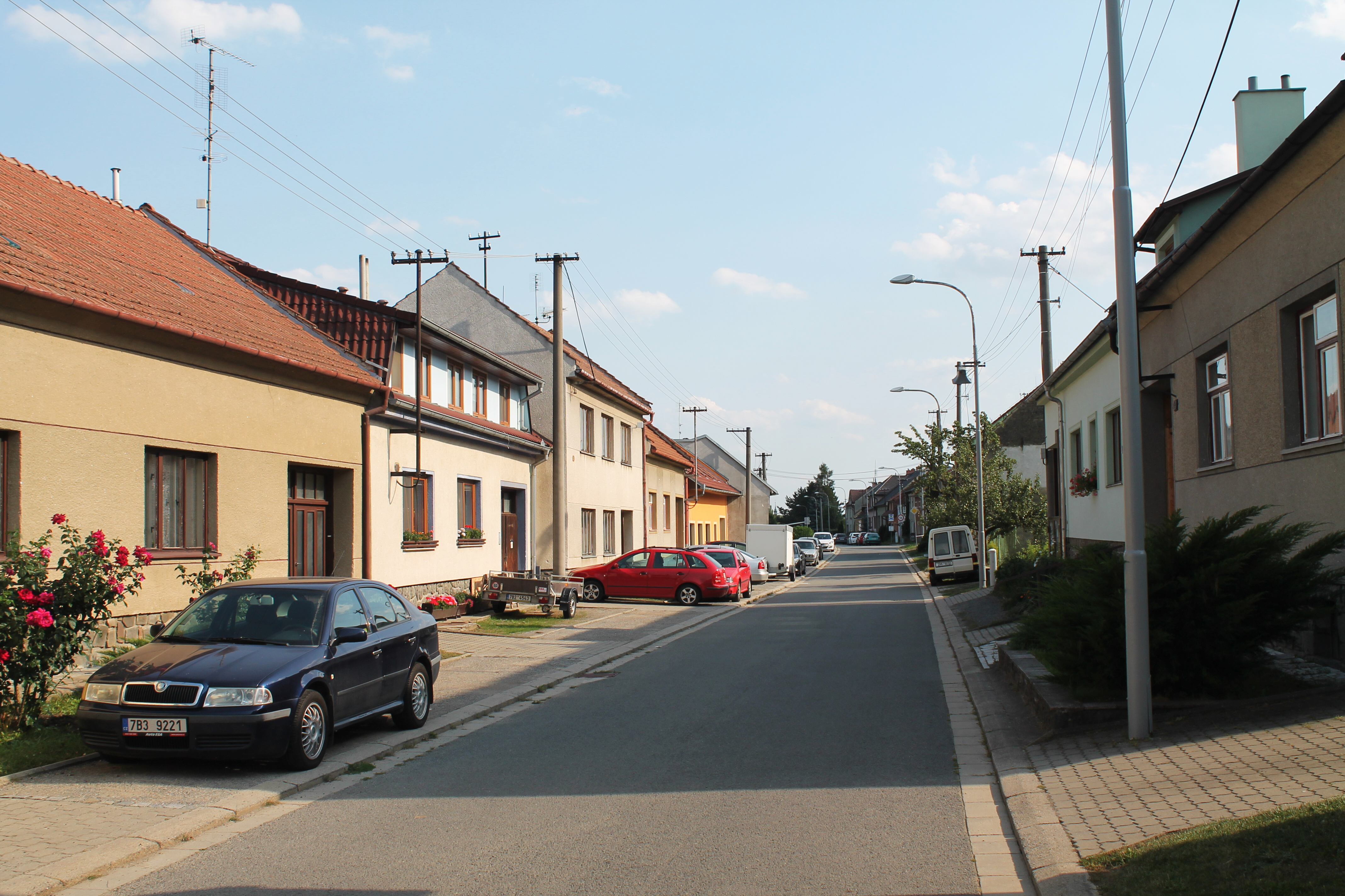 Hamiltony, Vyškov, Vyškov District, Czech Republic